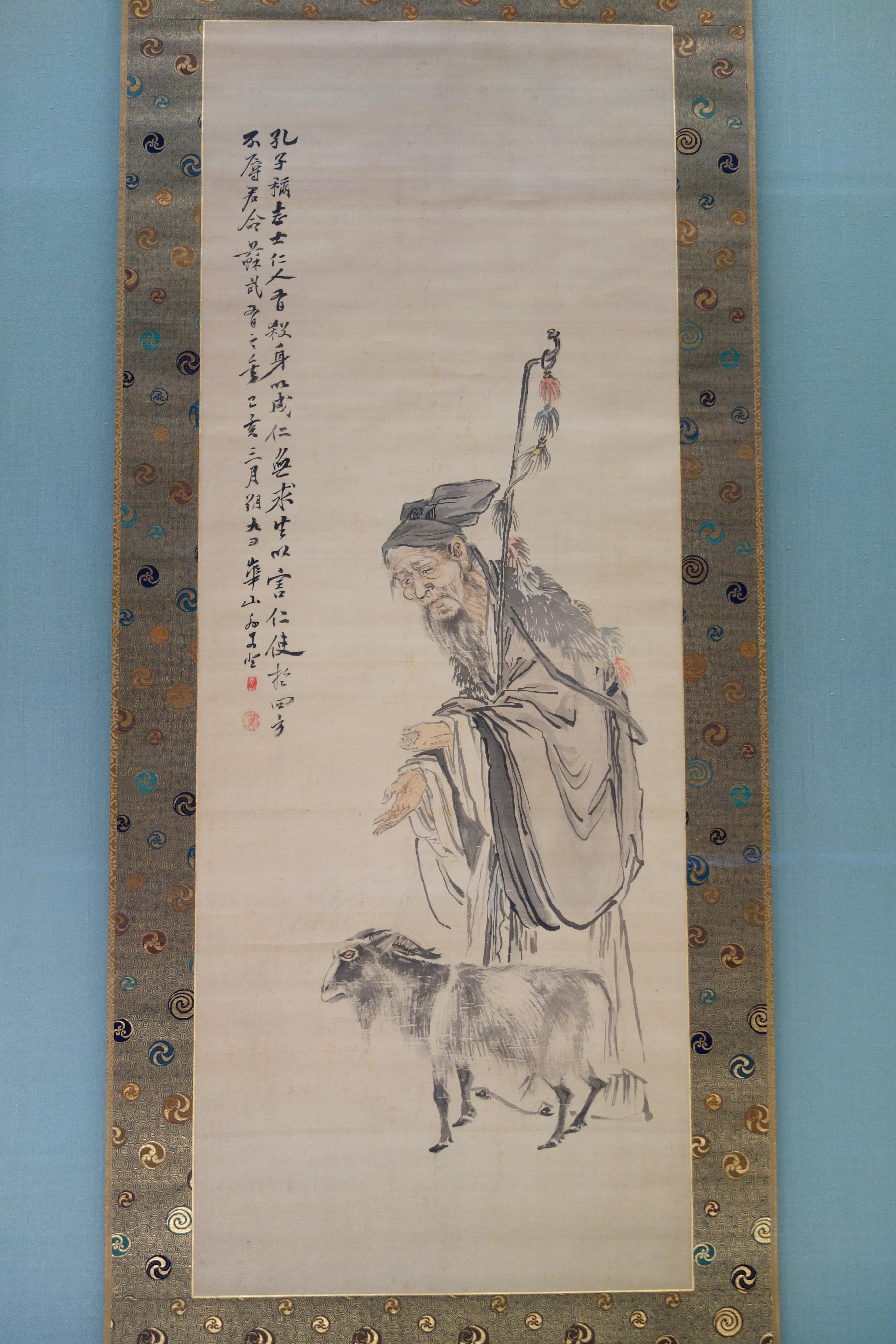 Exhibit in the Tokyo National Museum, Tokyo, Japan. This artwork is old enough so that it is in the public domain.